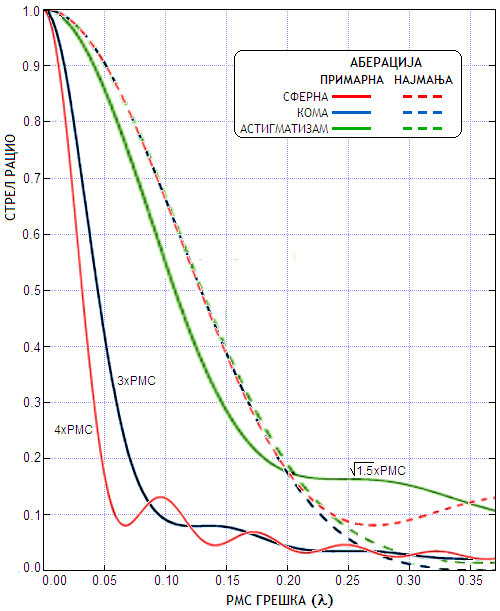 СТРЕЛ РАЦИО У ФОКУСУ ПРИМАРНЕ АБЕРАЦИЈЕ, И У ФОКУСУ АБЕРАЦИЈЕ СА НАЈМАЊОМ РМС ГРЕШКОМ ТАЛАСНОГ ФРОНТА ЗА СФЕРНУ АБЕРАЦИЈУ, КОМУ И АСТИГМАТИЗАМ